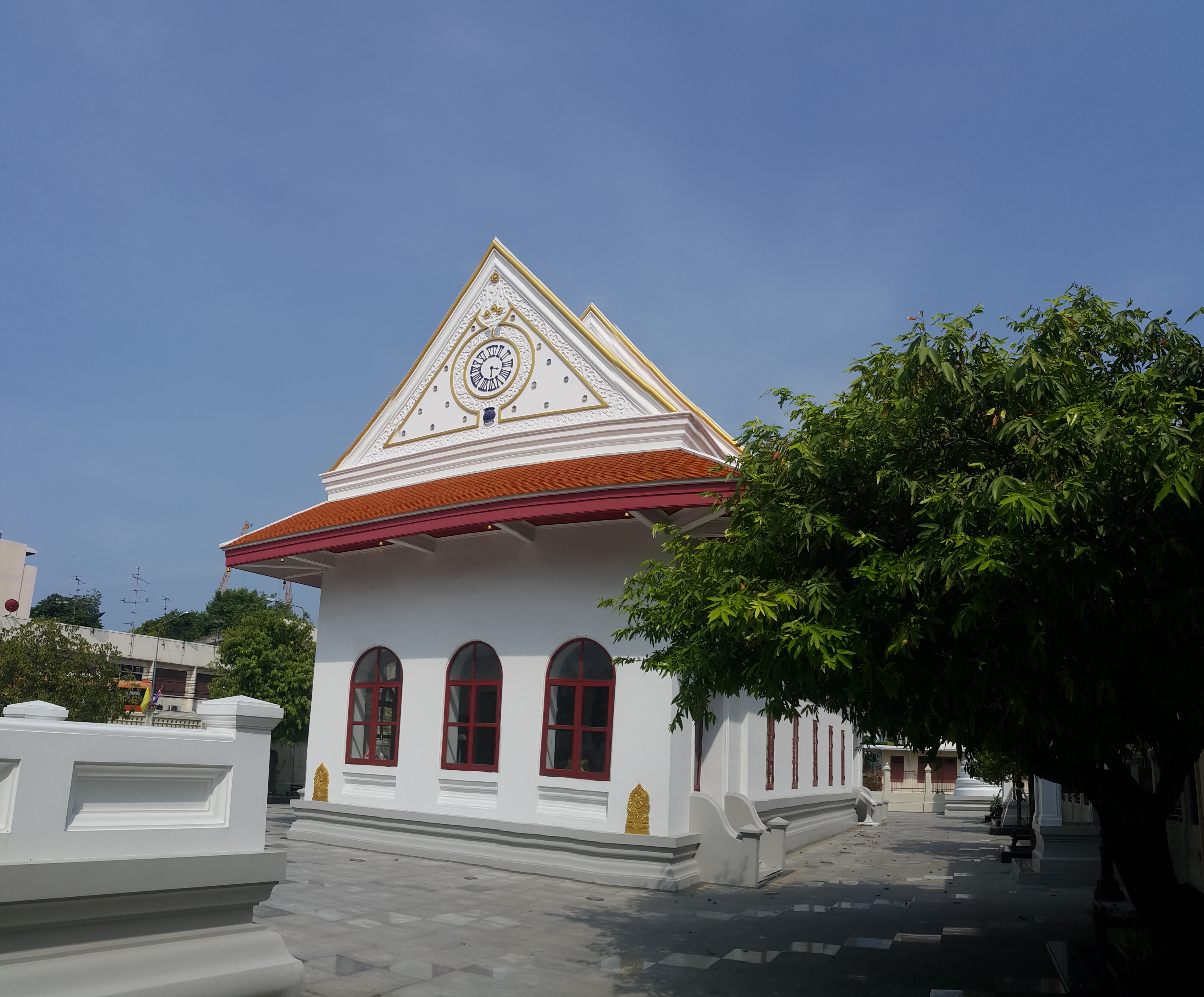 Wat Rajphatikaram, Dusit, Bangkok